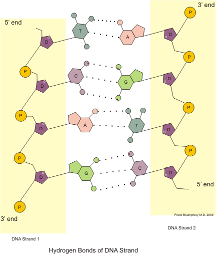 A Strand of DNA showing basic structure